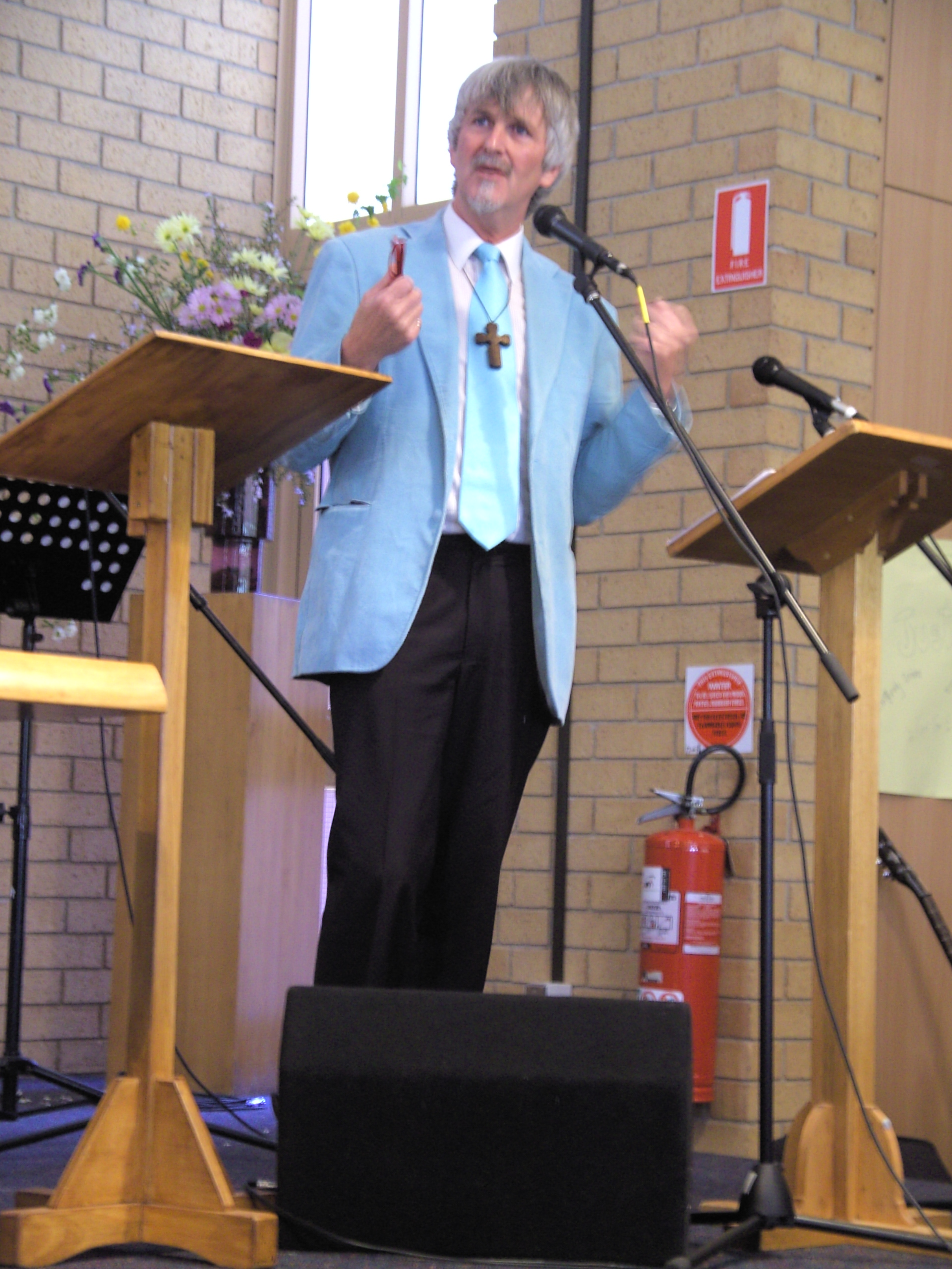 Rev. John L. Bell of the Iona community and the Church of Scotland. Picture at Kippax Uniting Church, Canberra, Australian Capital Territory, 2009-10-18.